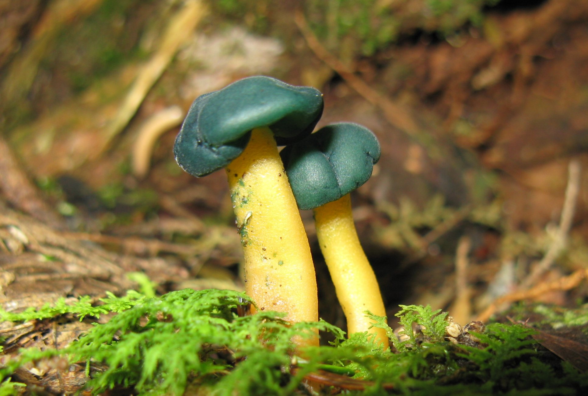 Leotia viscosa Fr. Location: West Lebanon, Grafton Co., New Hampshire, USA Observation Notes: Leotia viscosaCommon name: Green-headed Jelly Club For more information about this, see the observation page at Mushroom Observer.